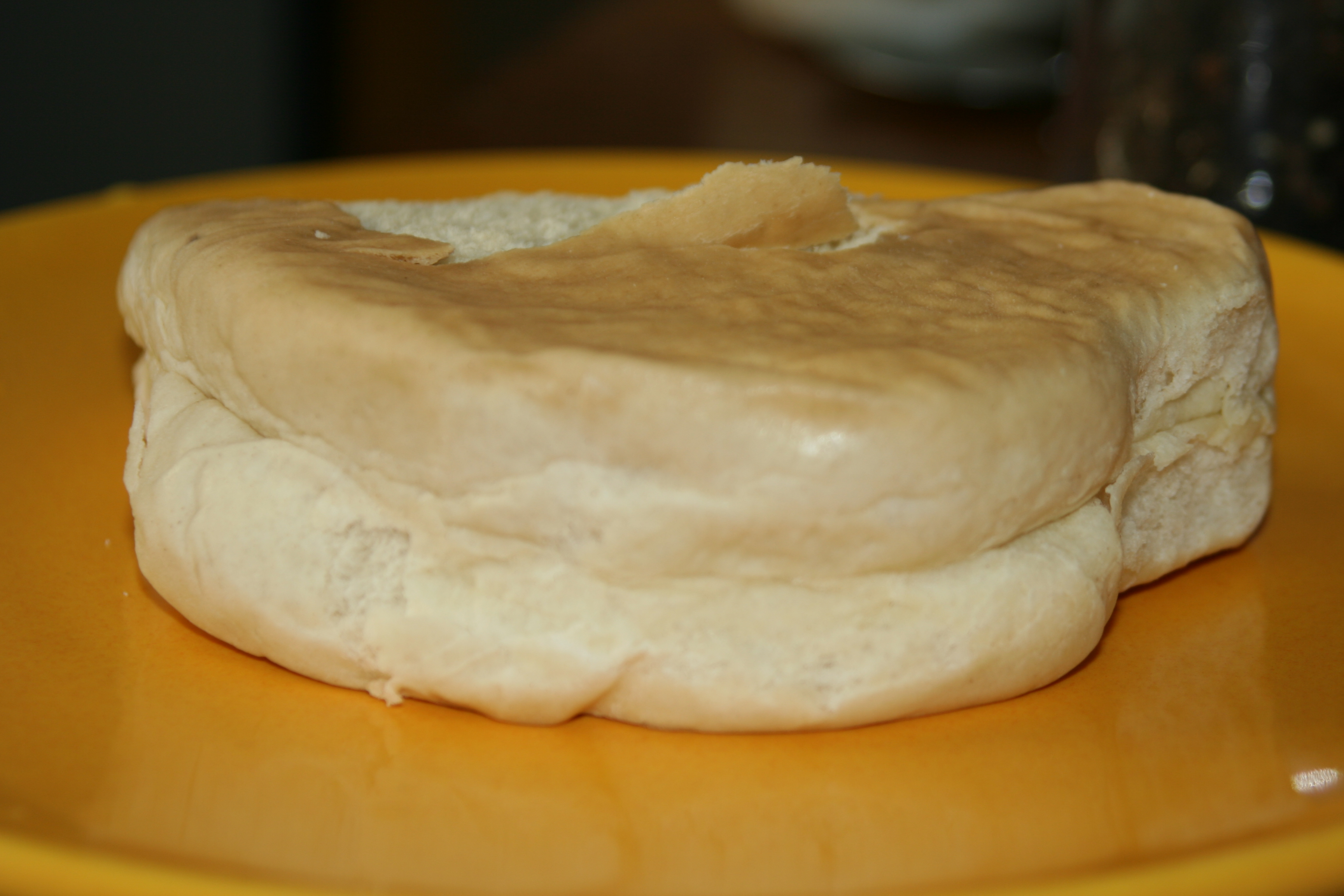 Coco bread from a Los Angeles bakery. Photo by ChildofMidnight. Attribution required.